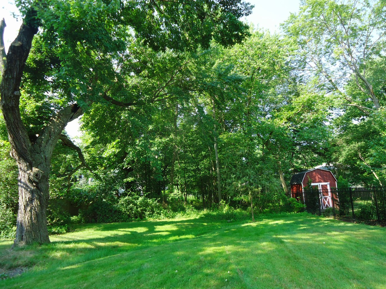 Woodsy area near Plainfield Avenue in Berkeley Heights, New Jersey.